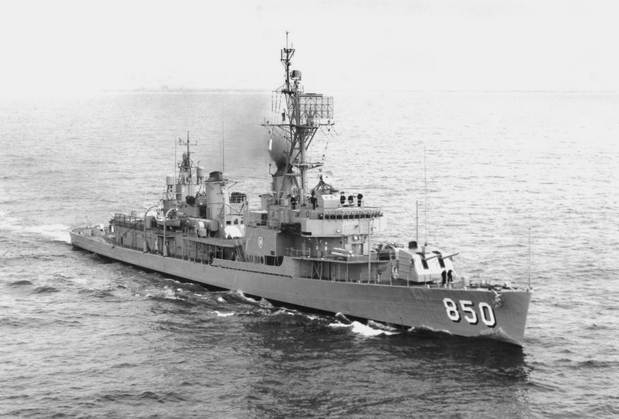 The U.S. Navy destroyer USS Joseph P. Kennedy Jr. (DD-850) after her FRAM I modernization in 1962.